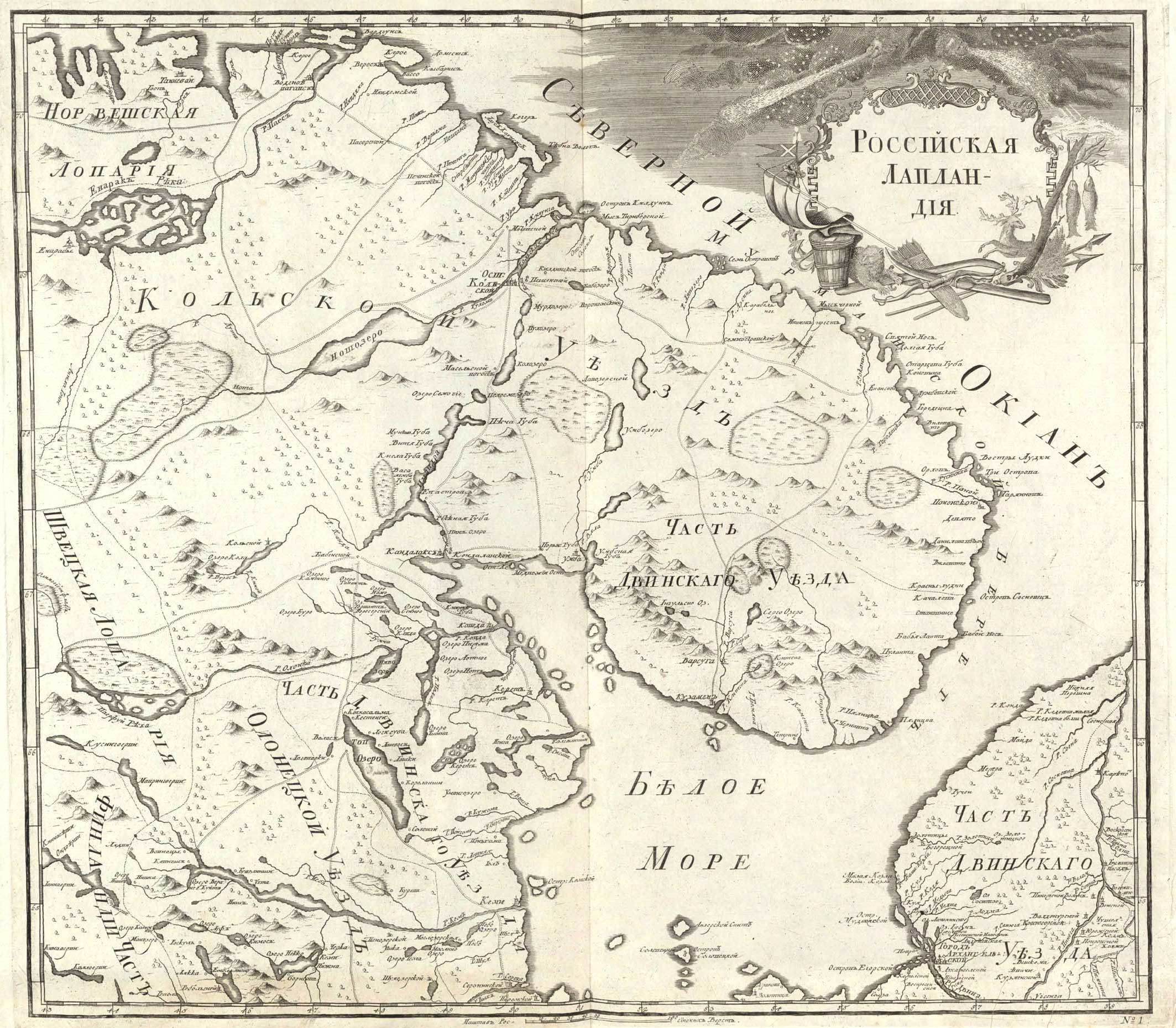 Map of Russian Lapland (today's Murmansk Oblast)